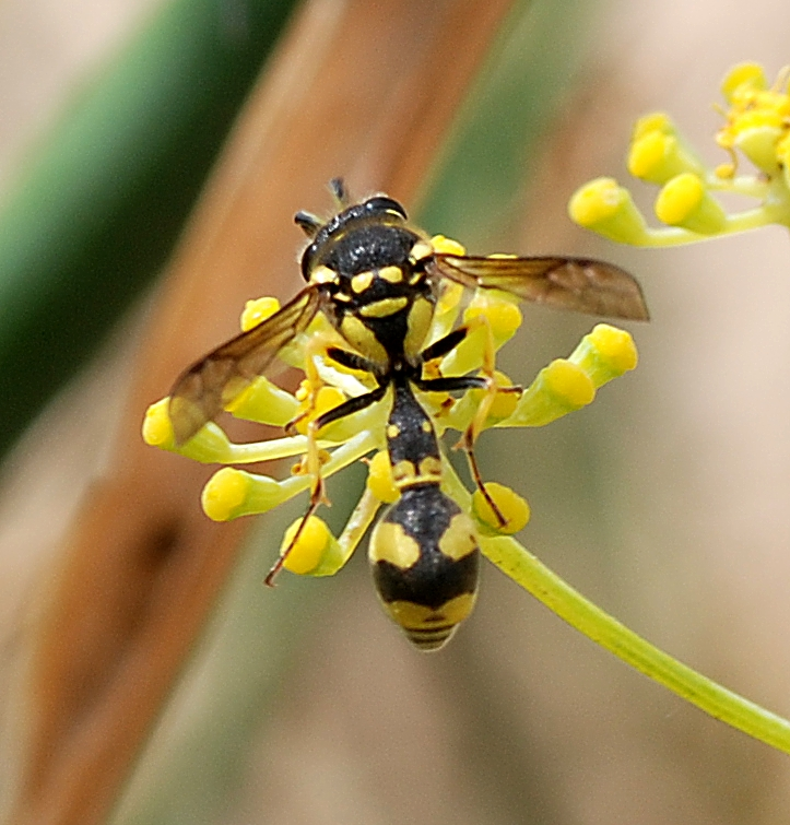 Mason wasp (Eumenes coarctatus)